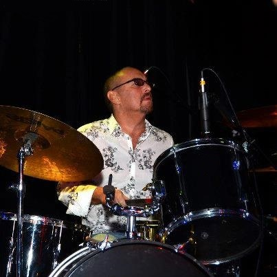 A photograph of drummer and percussionist Rick Shutter.